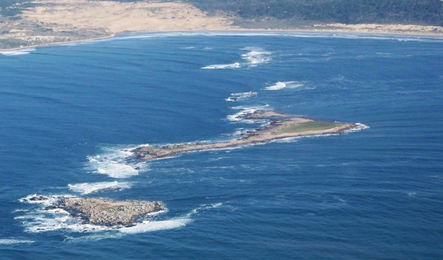 Cerro Verde e Islas